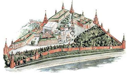 Overview map of the Moscow Kremlin. Location of the Church of St. John Climacus and the Ivan the Great Bell Tower marked.